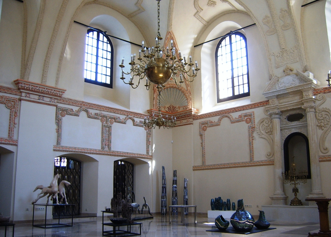 The Synagogue in Zamość (inside, after repair; 2011 - Center "Synagogue")